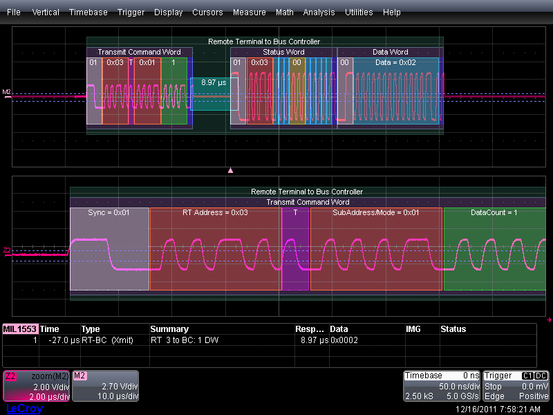 This image shows a MIL-STD-1553 signal. The signal carries the information of a Remote Terminal (RT) to Bus Controller (BC), with 1 Data Word (DW). The difference in amplitude between the Transmit Command Word and the Status and Data Words is due to the different attenuation during the transmission.